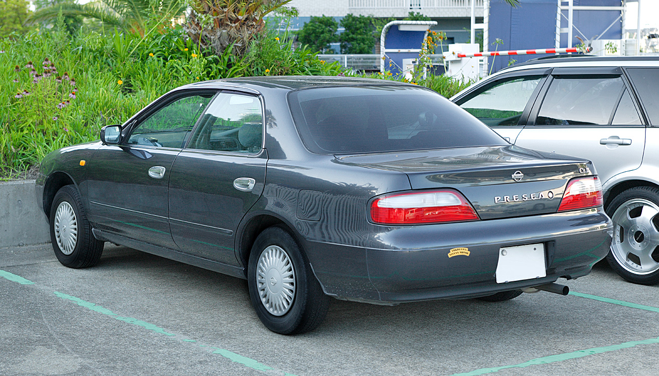 Nissan Presea 2nd generation (R11)